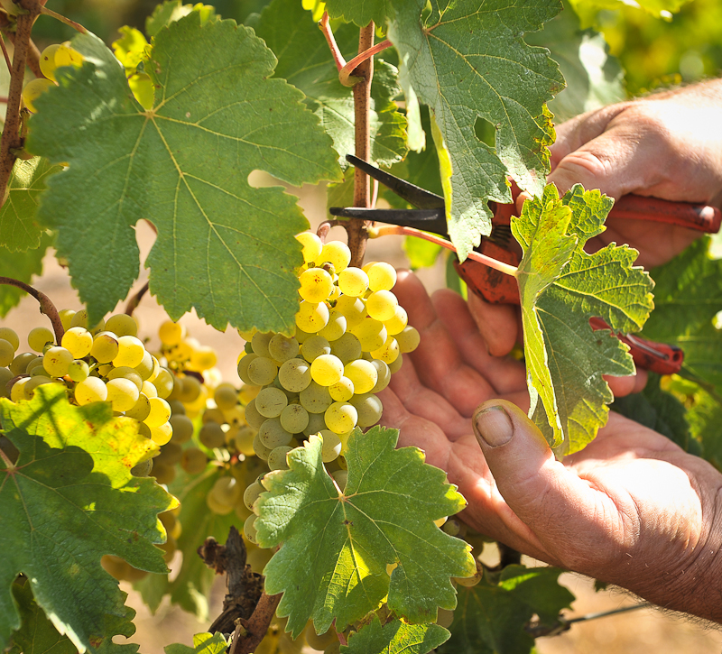 Gruner Veltliner Grapes being harvested at Hahndorf Hill in the Adelaide Hills wine region during harvest 2013